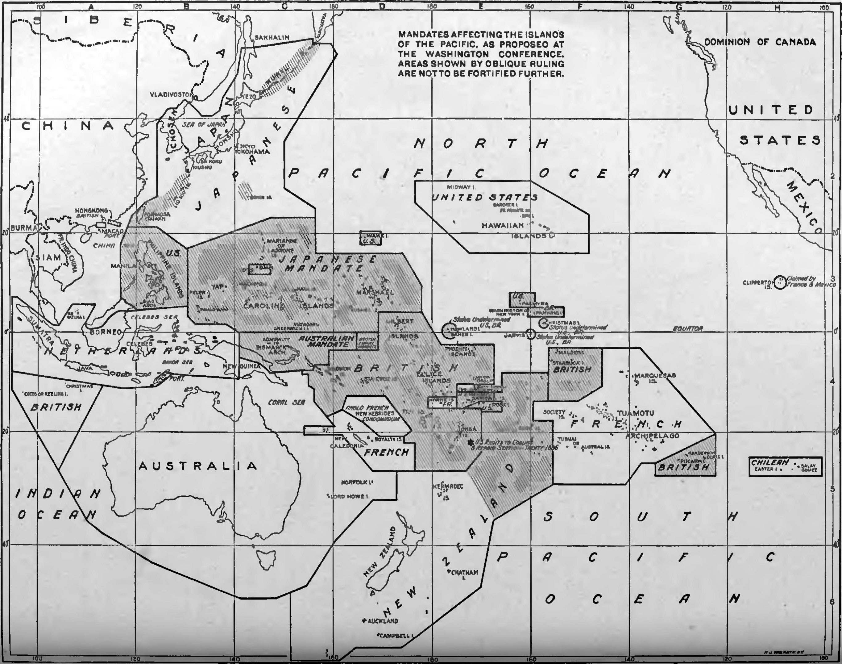 Map of the islands in the Pacific Ocean with shading to indicate which of them it is proposed not to fortify further.